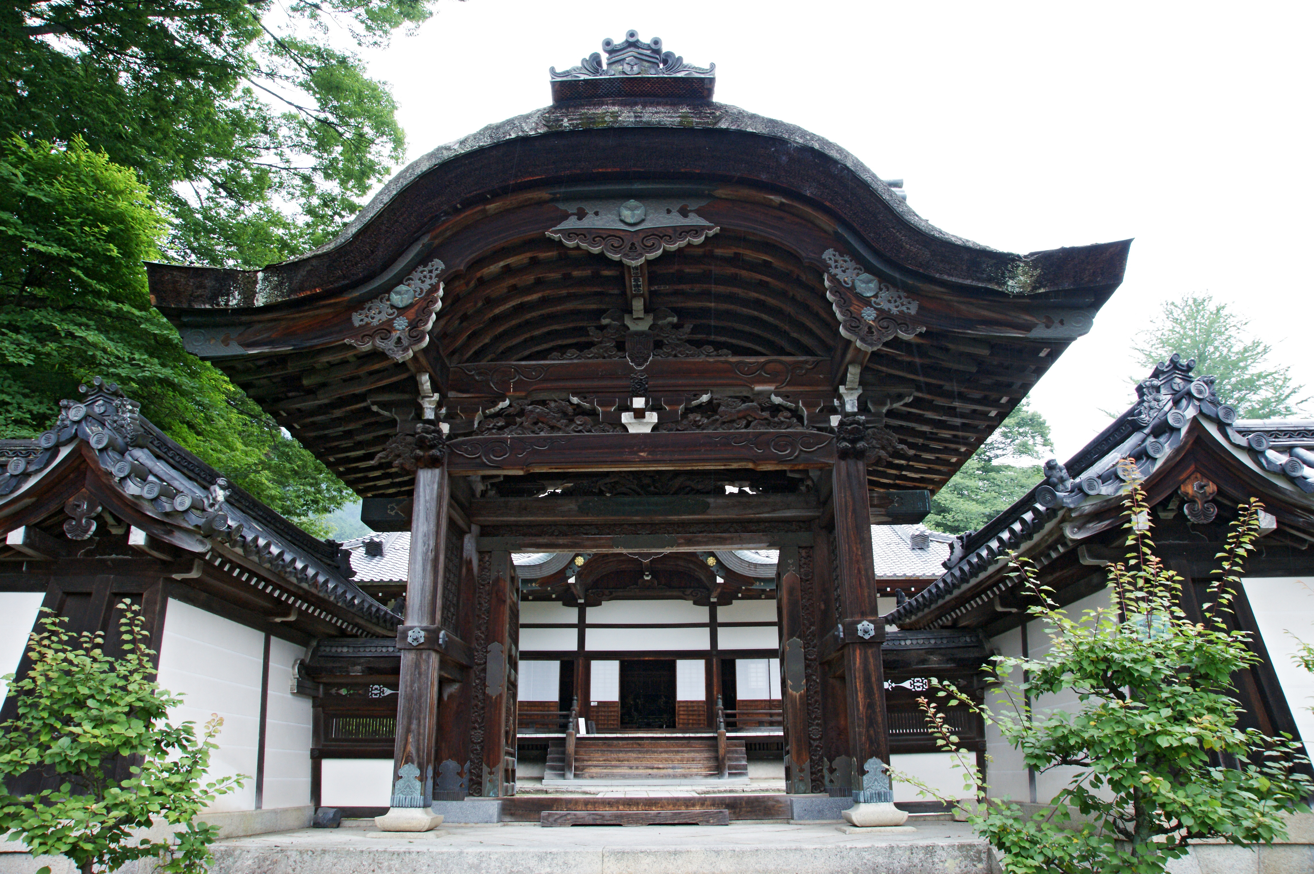 Saikyoji in Sakamoto, Otsu, Shiga prefecture, Japan